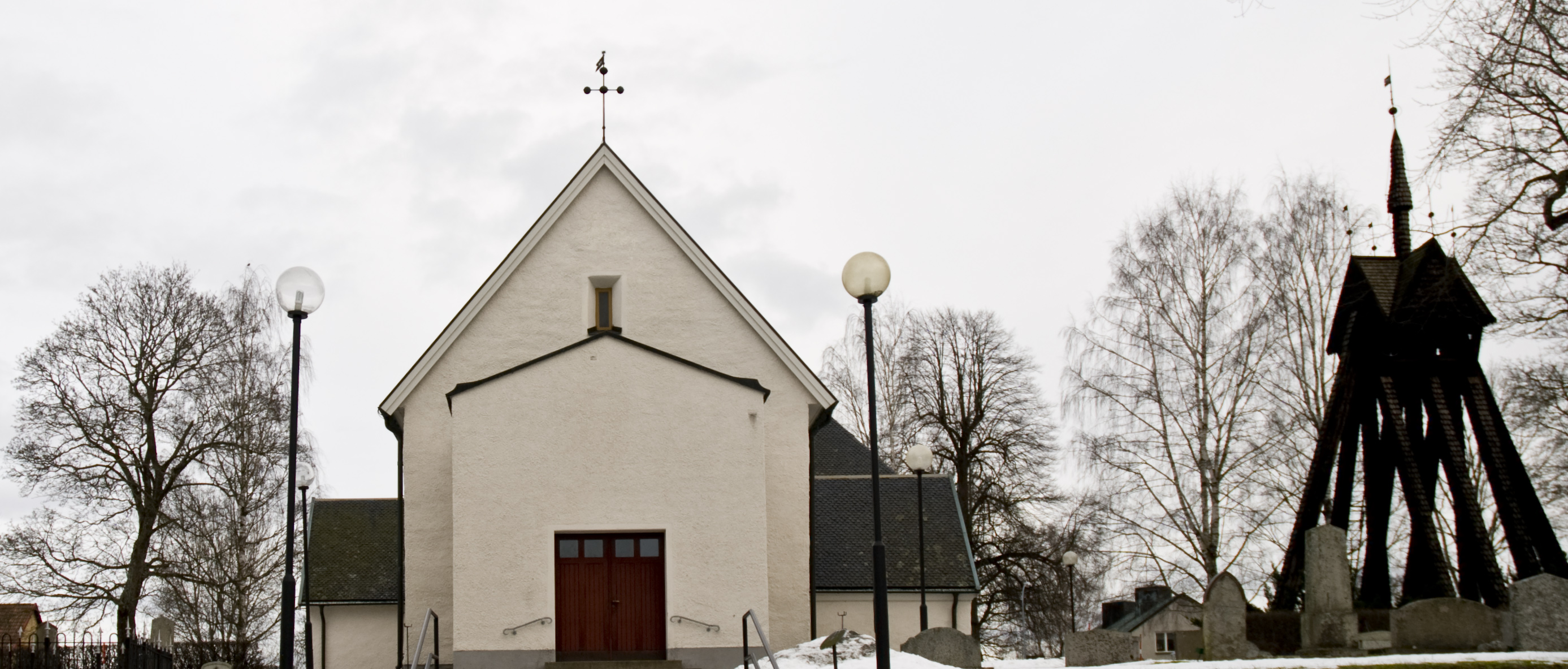 Almby church in Örebro, Sweden